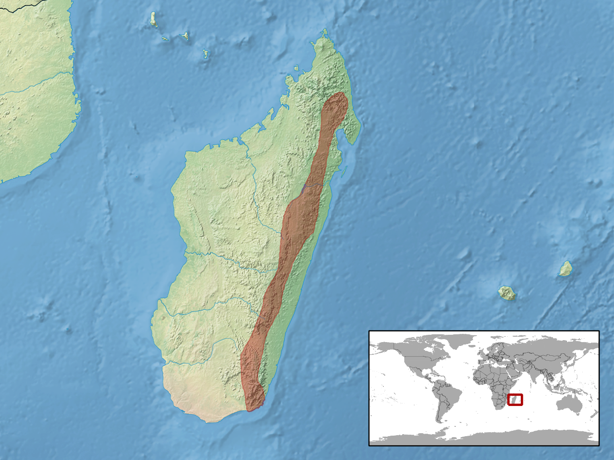 geographic distribution Phelsuma quadriocellata (Native: Madagascar)